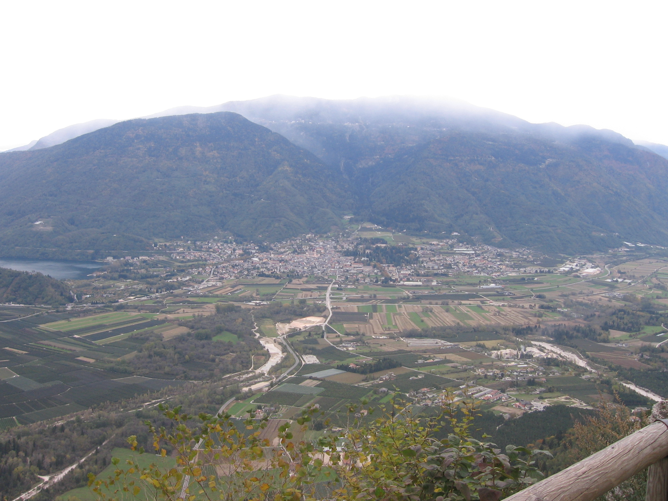 Levico Terme (Italy) viewed from the sightseeing point ("belvedere") on the Kaiserjägerstraße.